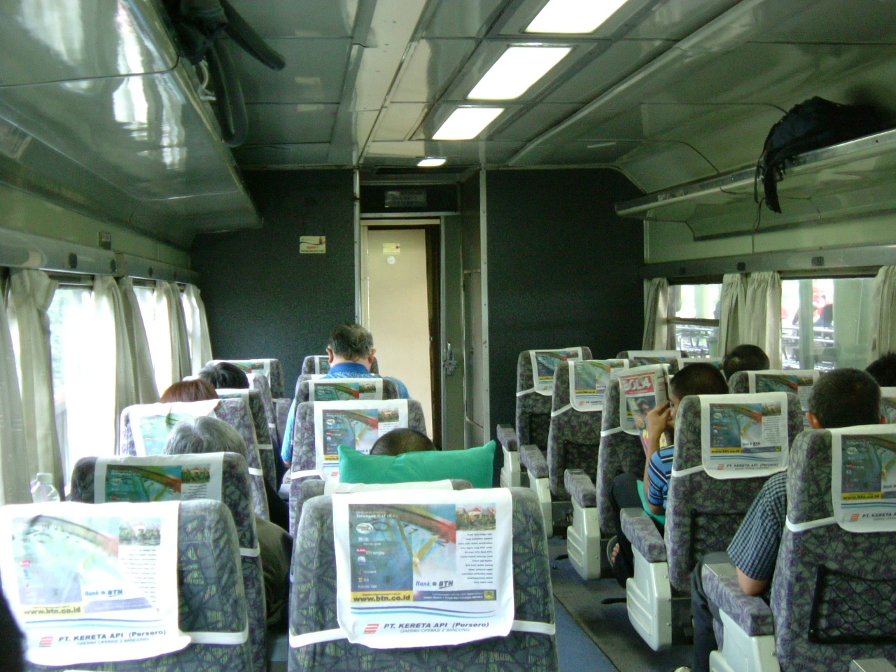 Interior of Parahyangan train Executive Class connecting Jakarta-Bandung. パラヒャガン号「エギュゼクティブクラス」内部の様子。